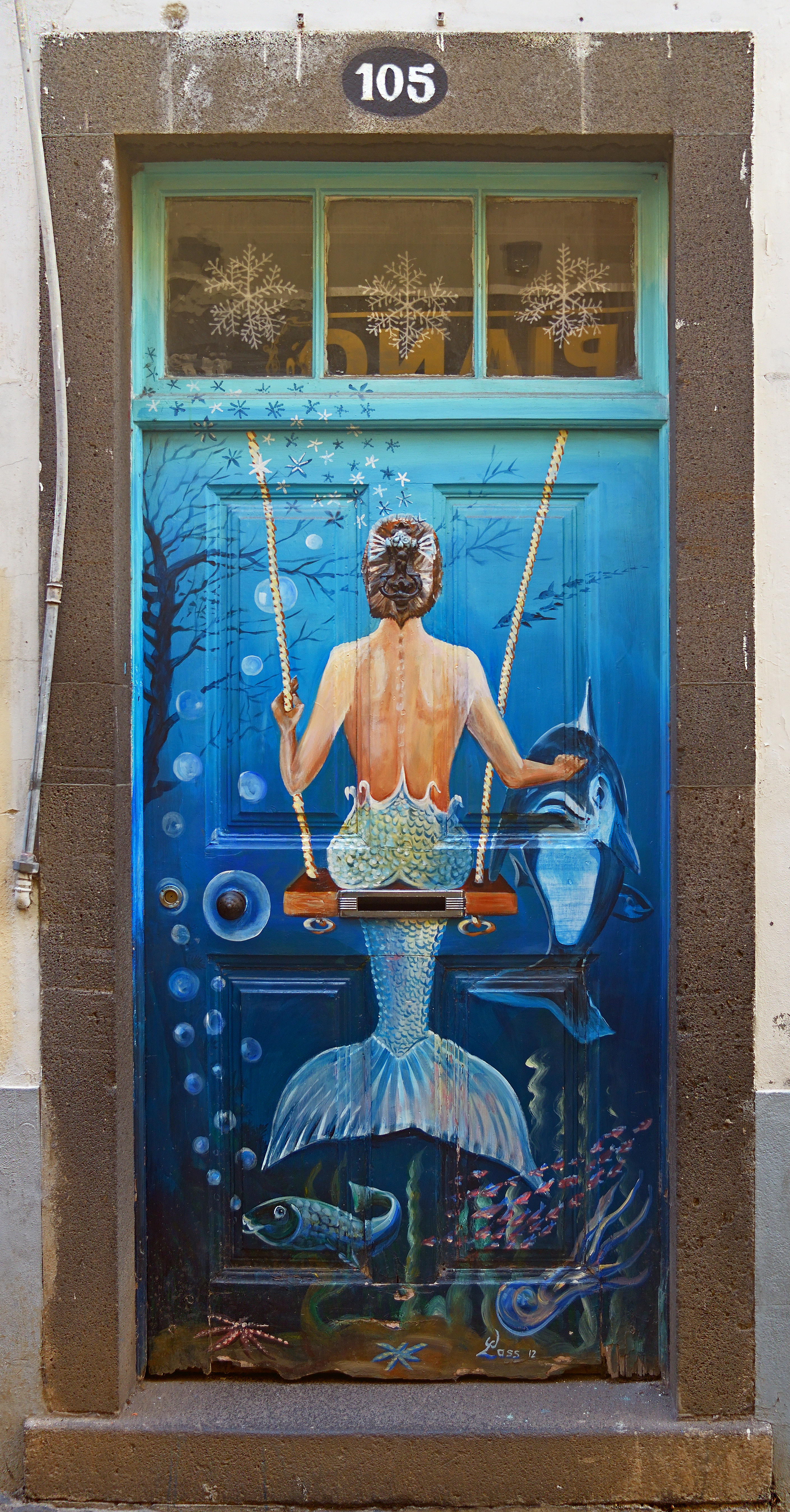 Painted door (Mermaid). Funchal, Madeira. ArT of opEN doors project in Rua de Santa Maria of Funchal